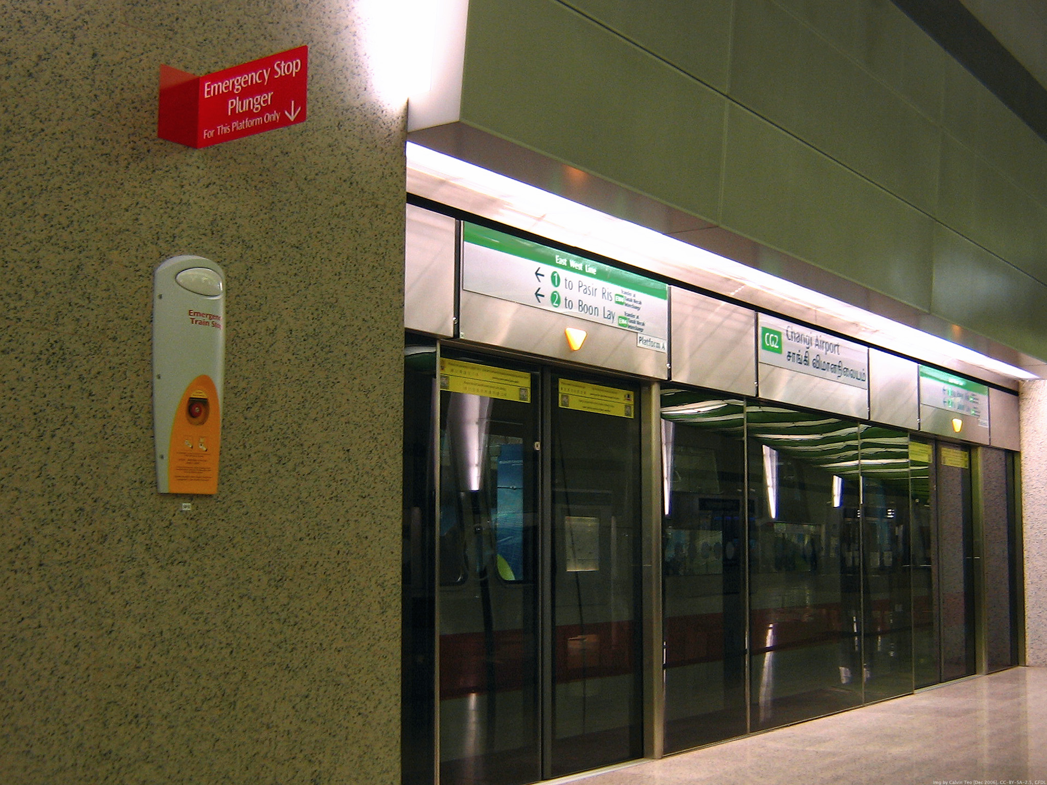 Emergency Stop Plunger - A safety feature found in all MRT Stations. Pictured is the ESP at Changi Airport Station.